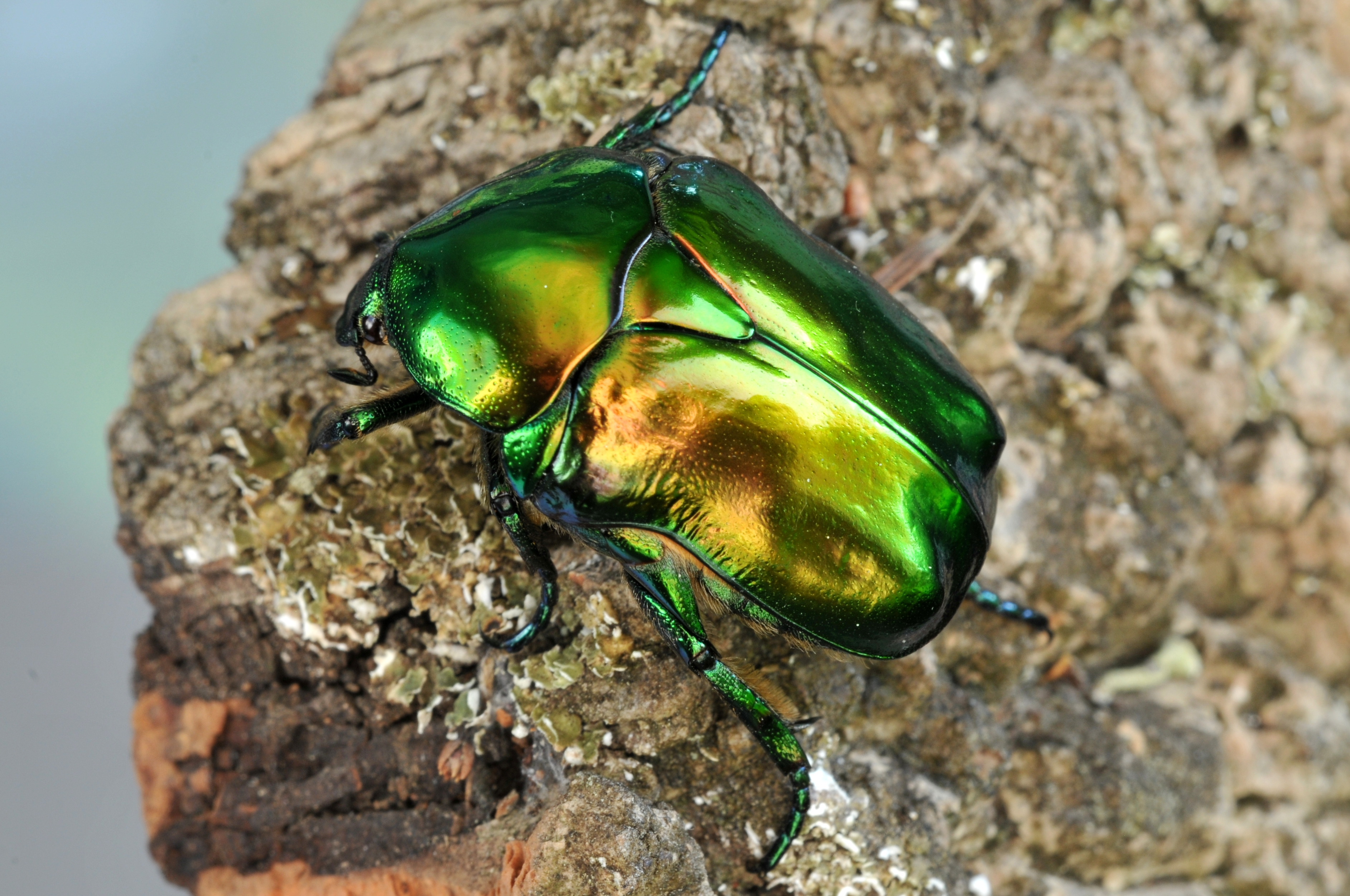 Protaetia aeruginosa, Neu-Isenburg, Offenbach (district), Hesse, Germany